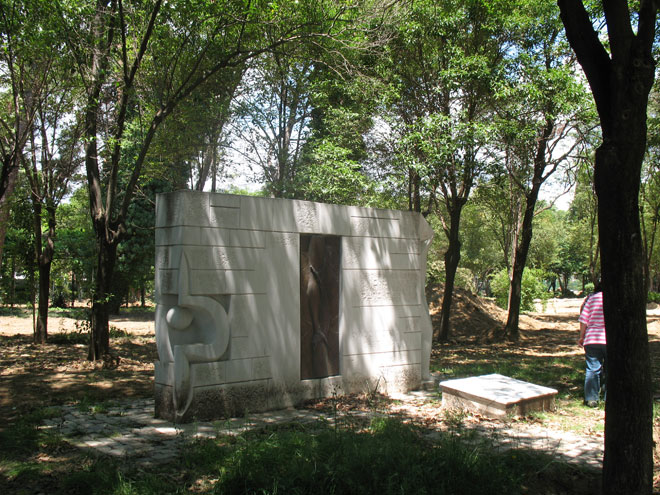 Komotini_holocaust_memorial. Credit: Courtesy of Arie Darzi to memorialize the Jewish community in Greece.